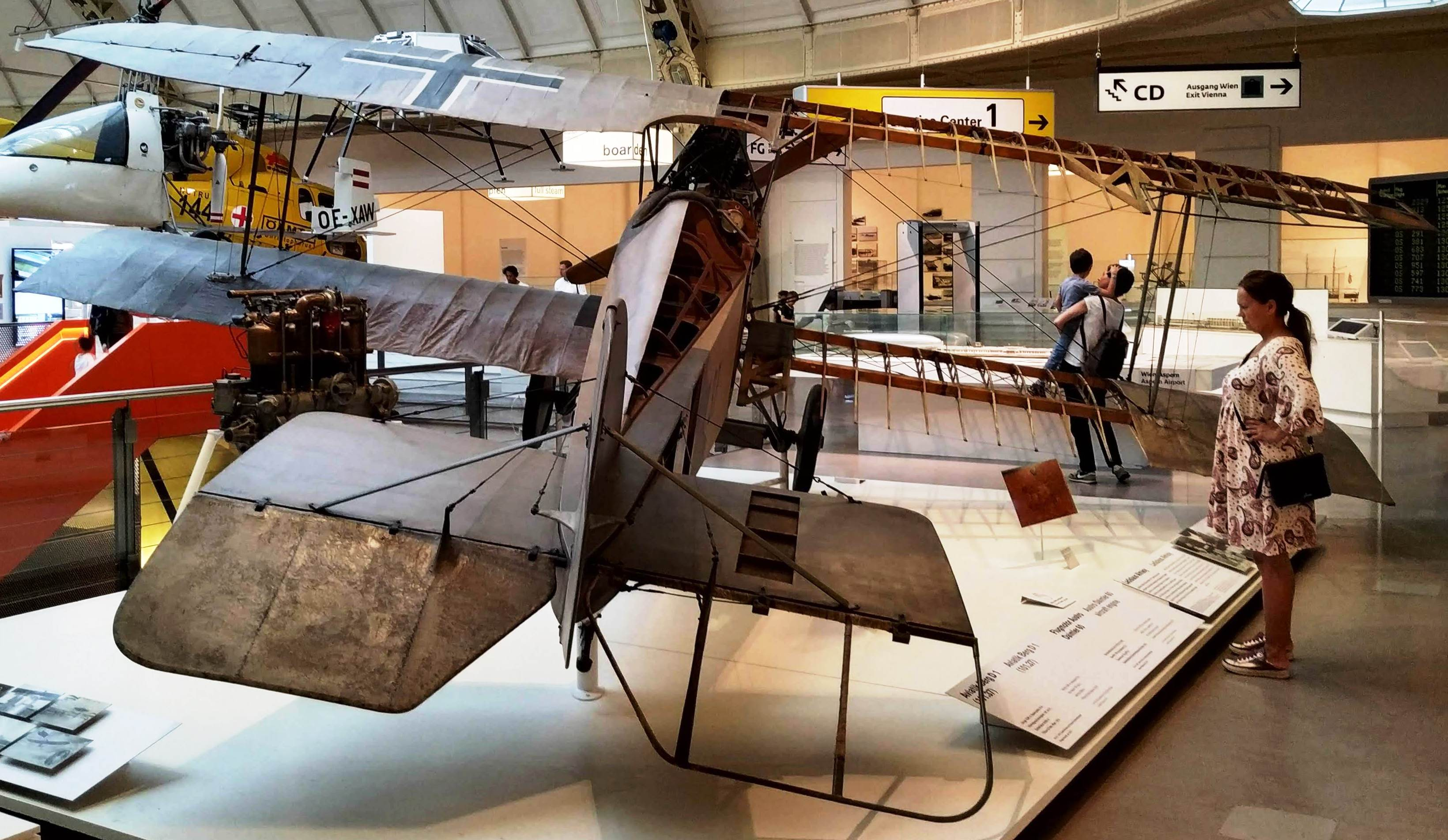 View of the Aviatik Berg D 1 plane from the rear